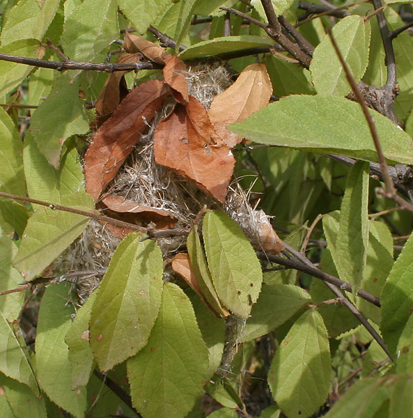 Ashy Prinia Prinia socialis in Hyderabad , India.